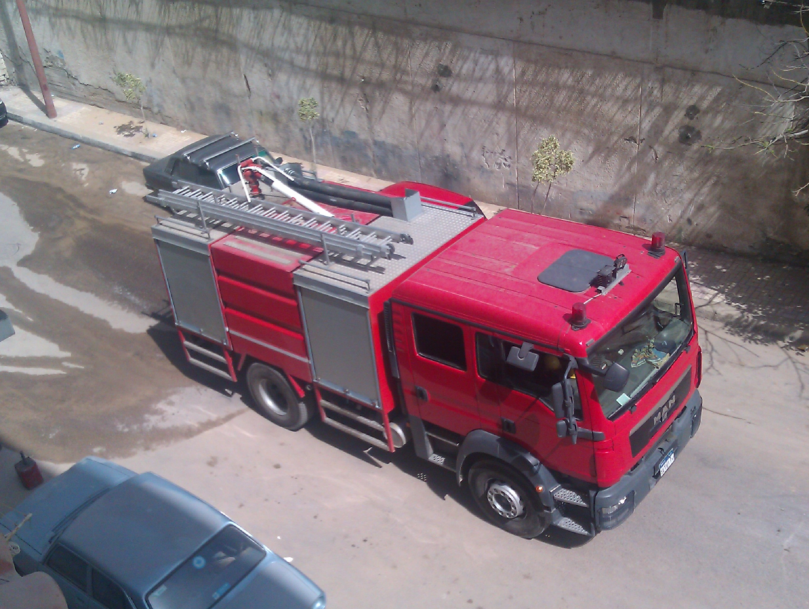 A fire truck in Alexandria, Egypt.